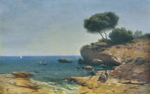 Mikhail Spiridonovich Erassi